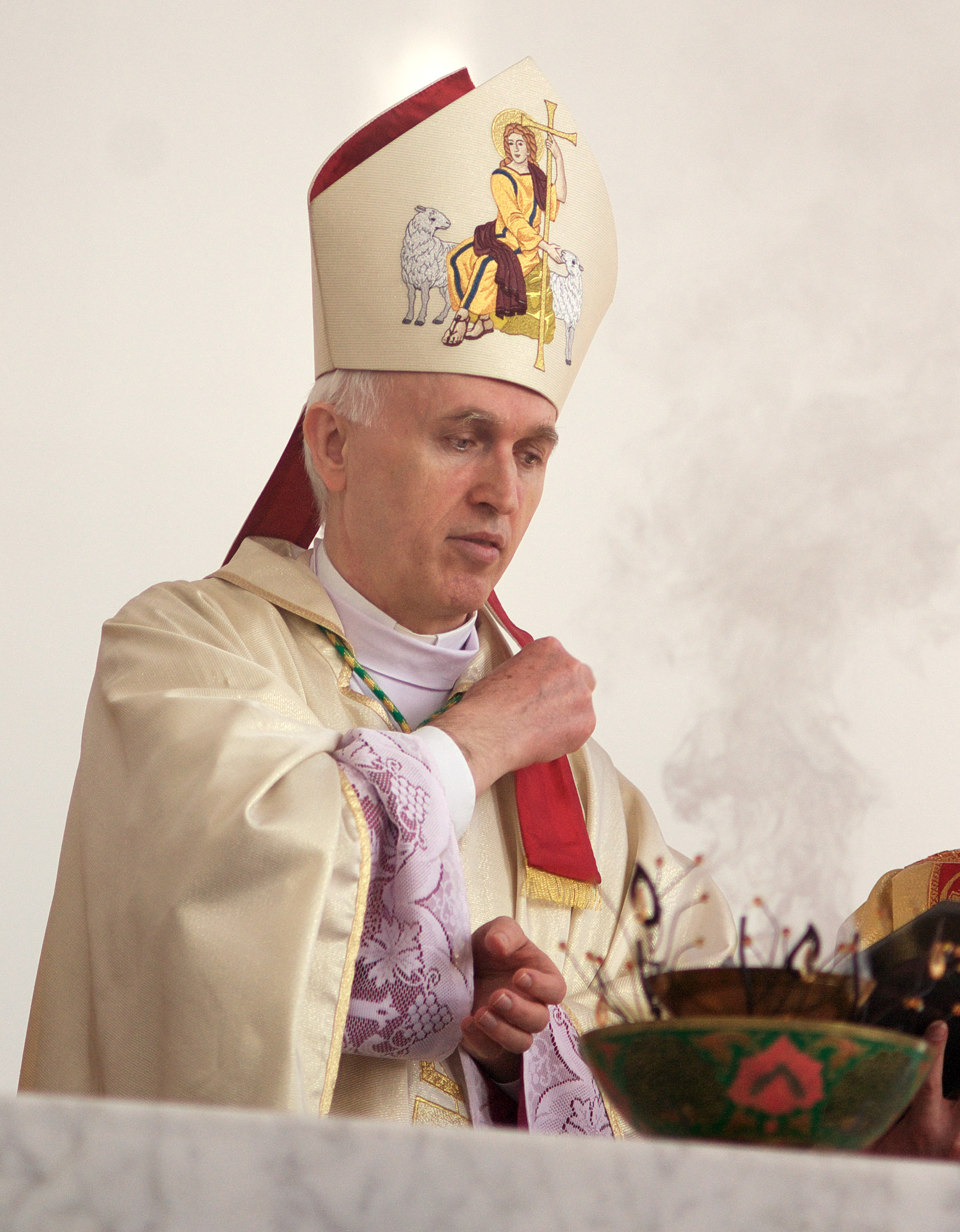 Martin Vidovich